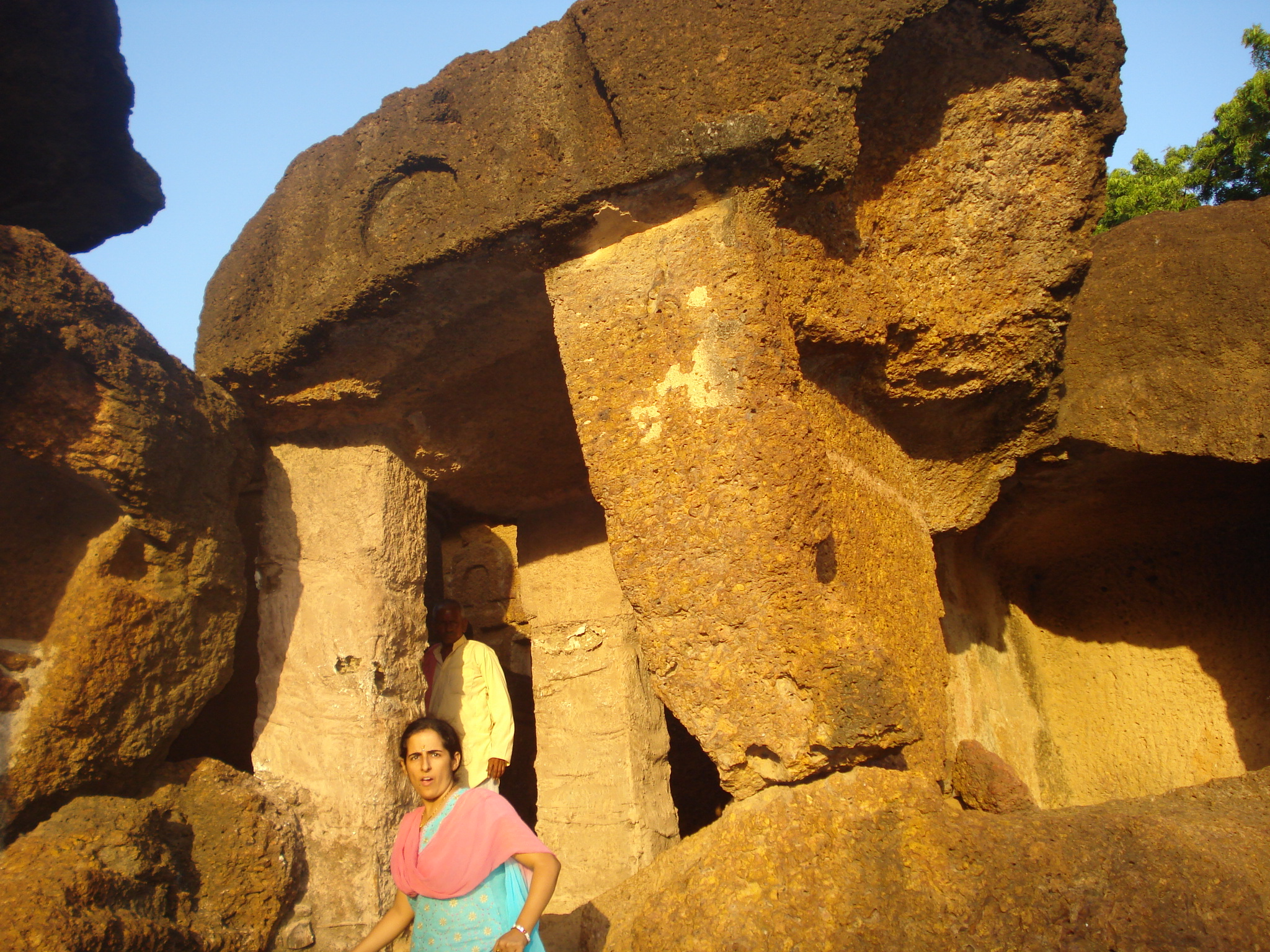 Dhamnar caves at Chandwasa in Mandsaur district Madhya Pradesh, Indis